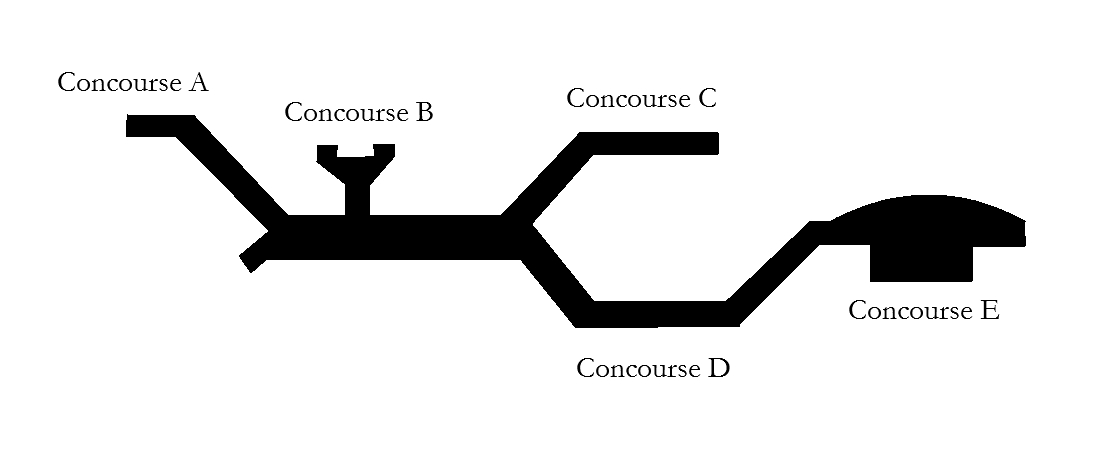 Terminal Map St. Louis Lambert International Aiprot (STL)